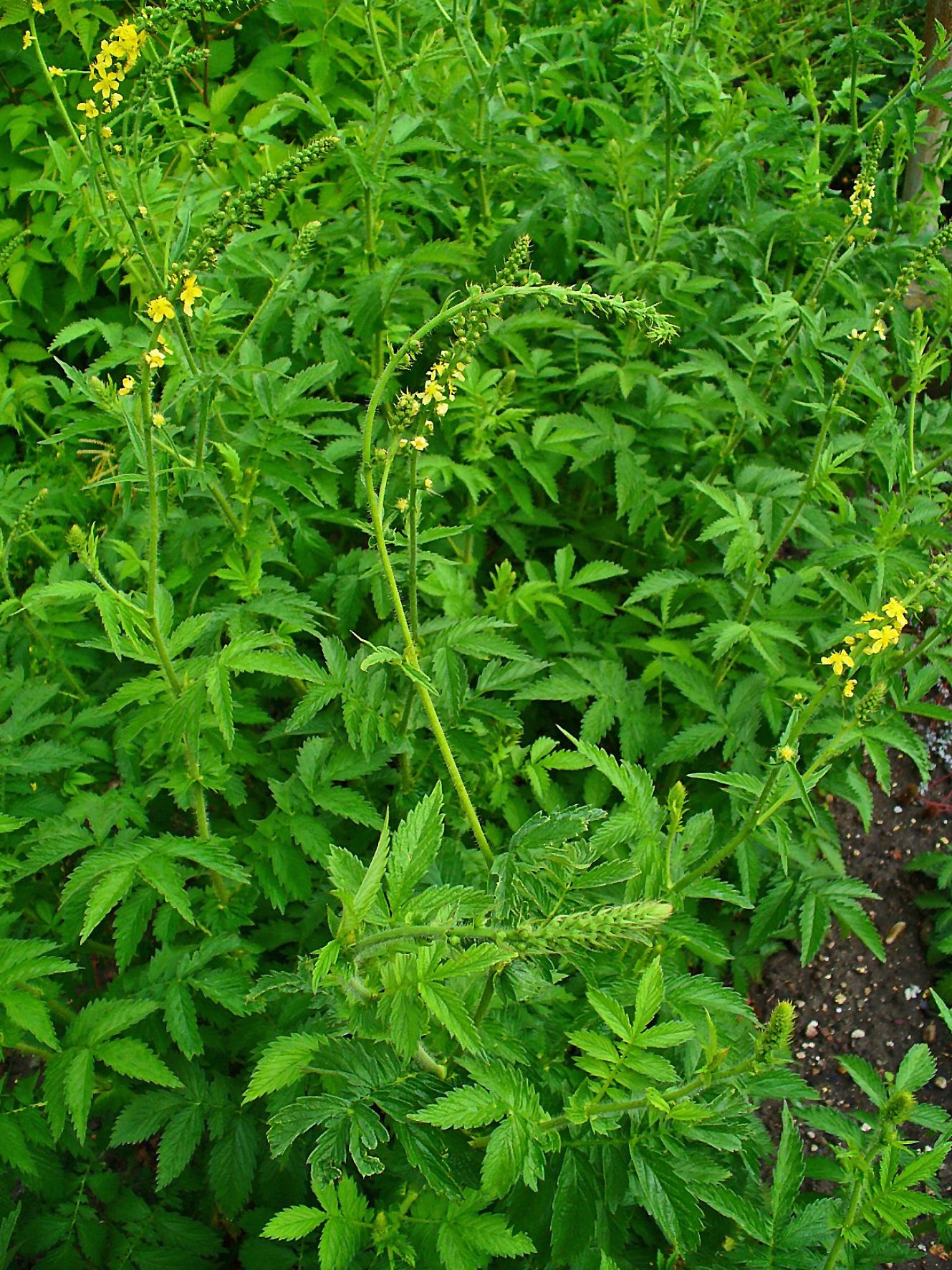 Agrimonia procera, Rosaceae, Fragrant Agrimony, habitus; Botanical Garden KIT, Karlsruhe, Germany.